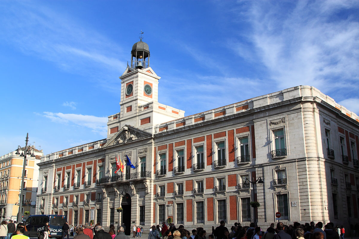 North façade (Puerta del Sol, square) of the Real Casa de Correos in Madrid (Spain).